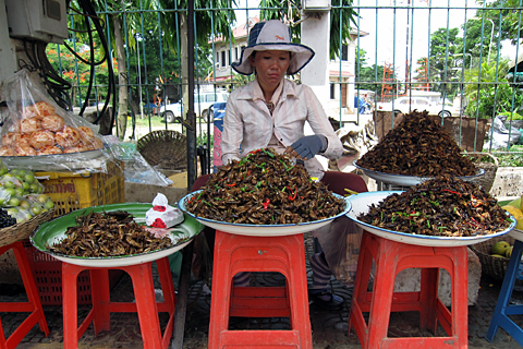 Selling insects as snacks in Cambodia.